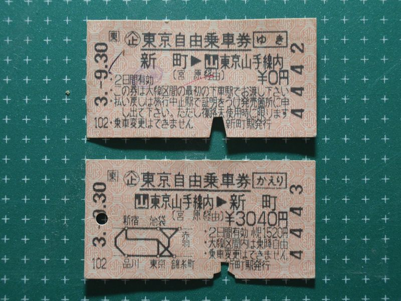 Tokyo freelance ticket